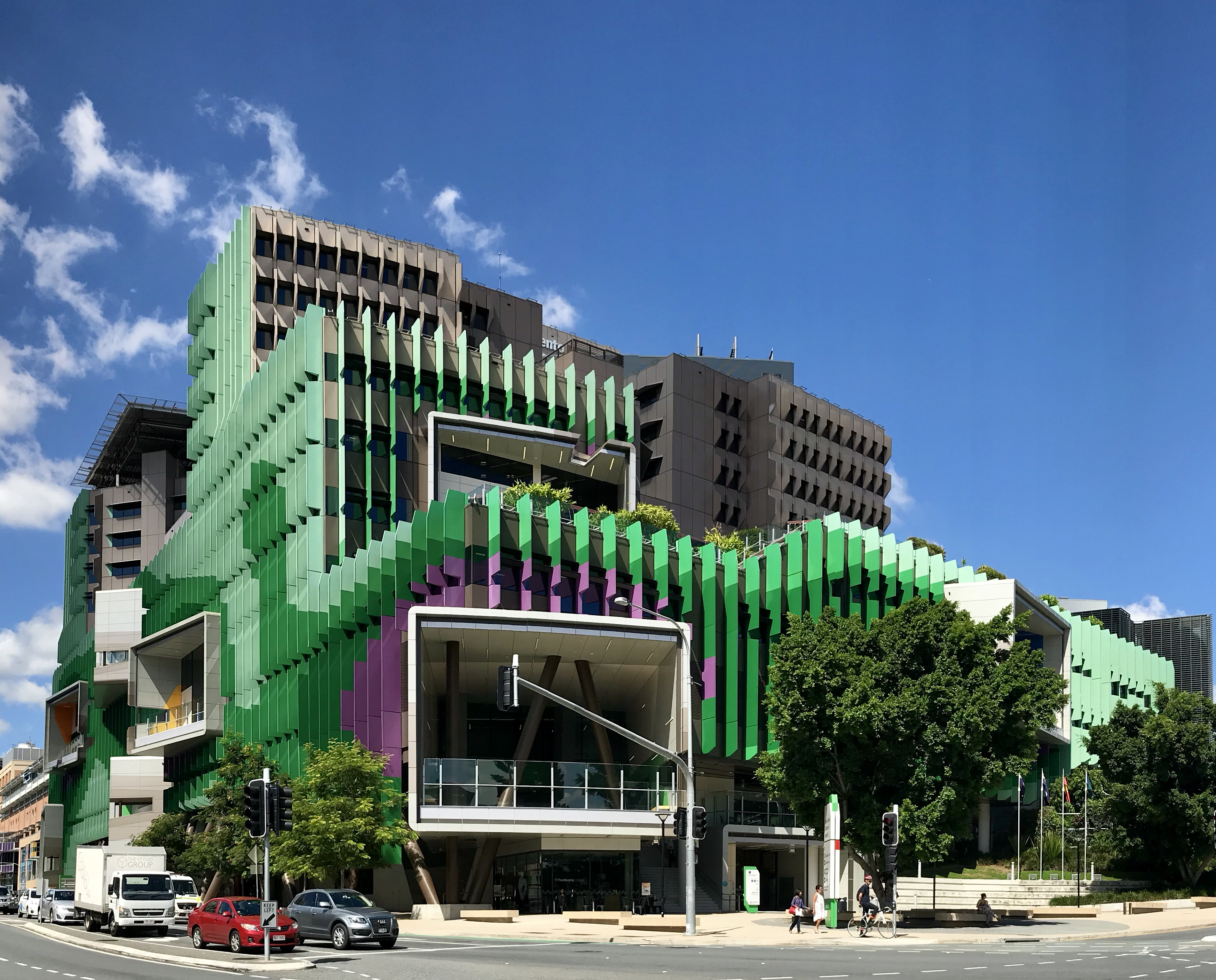 Lady Cilento Children's Hospital, Brisbane, Queensland